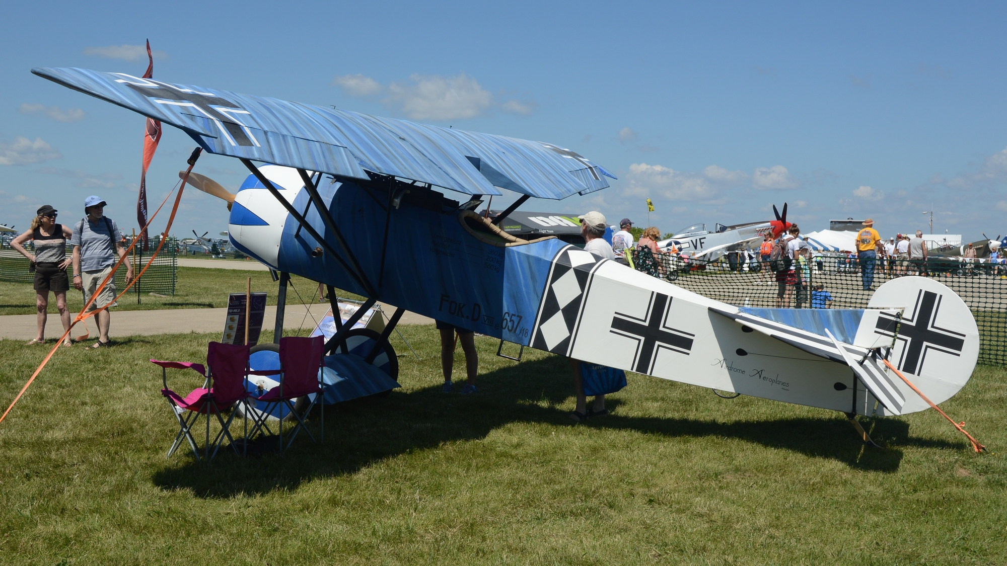 At EAA AirVenture, Wittman Regional Airport